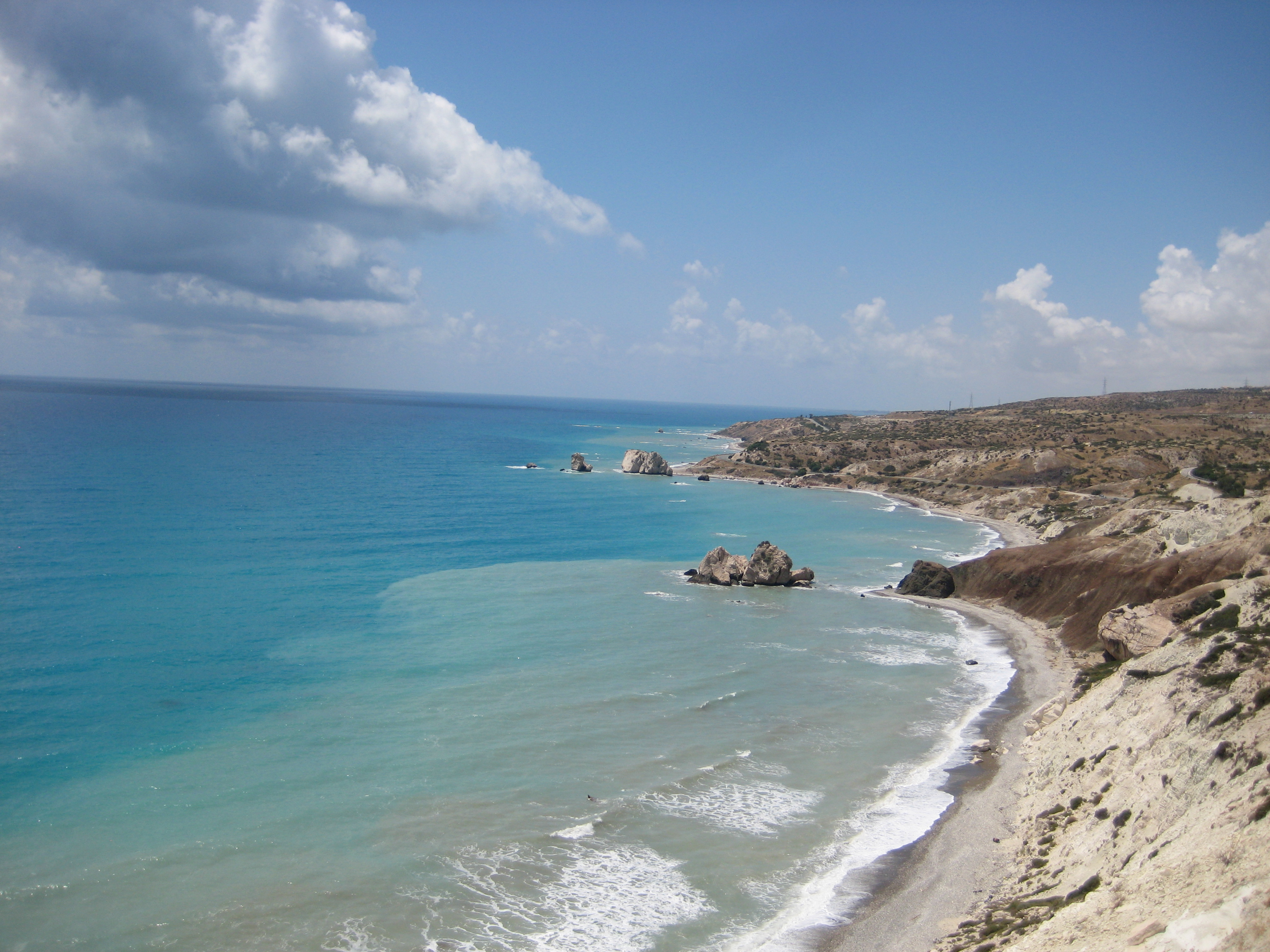 Petra Tou Romiou The Saracen Rock (foreground) and the Rock of the greek (background). View on Aphrodite's legendary birthplace in Paphos, Cyprus